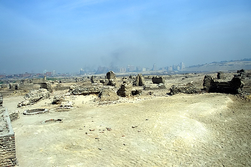 Landscape photograph, Fustat Ruins, Old Cairo, Egypt